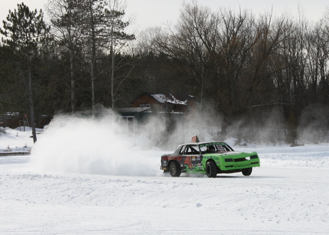 Ice racing in the Tilleda Thunder program on the Embarrass River on the north side of Tilleda, Wisconsin. This car races in the rear wheel drive studded class and it probably was an IMCA Stock Car.